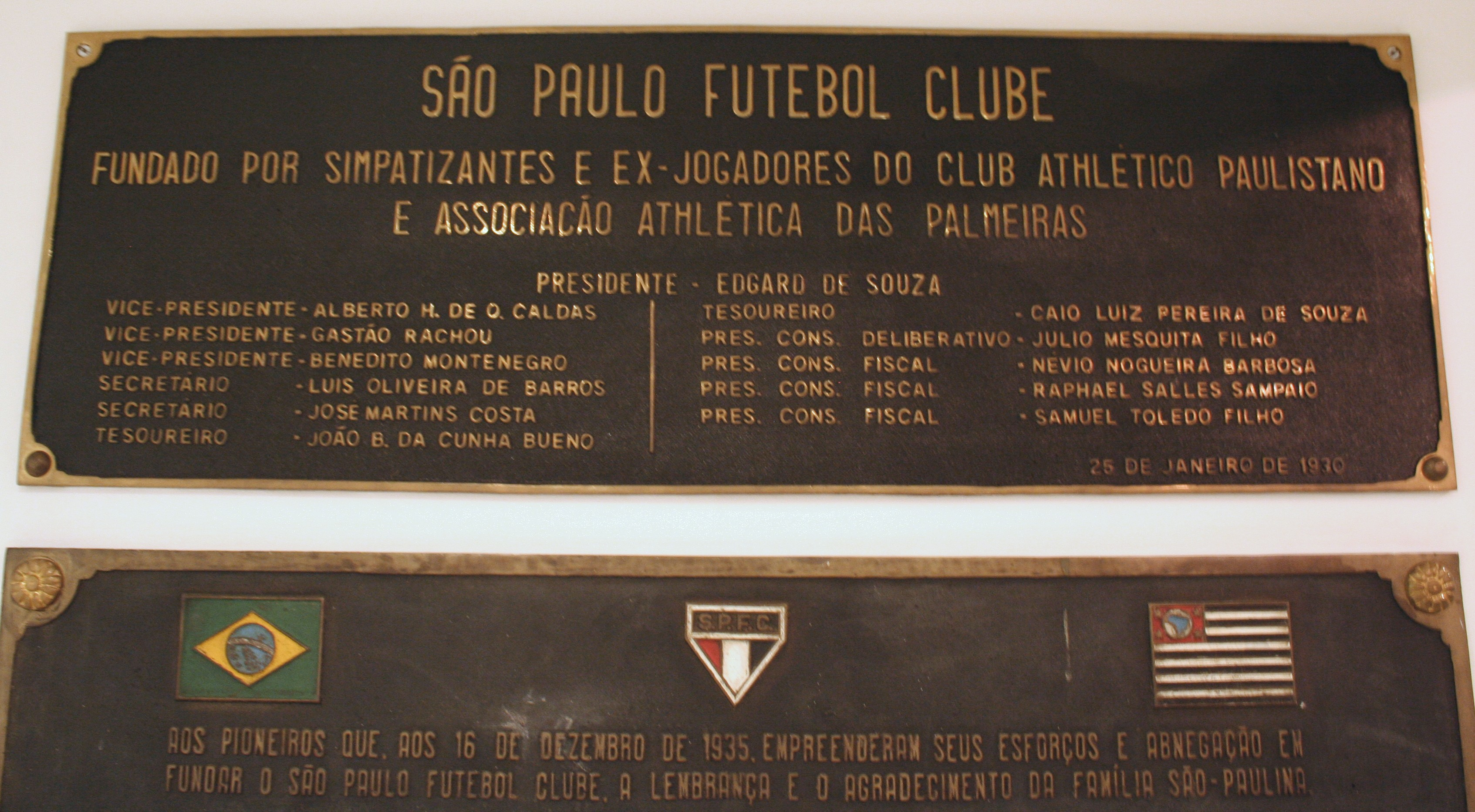 foundation plate of the club in the Luiz Cássio dos Santos Werneck memorial, located in the Cícero Pompeu de Toledo stadium, known as Morumbi.